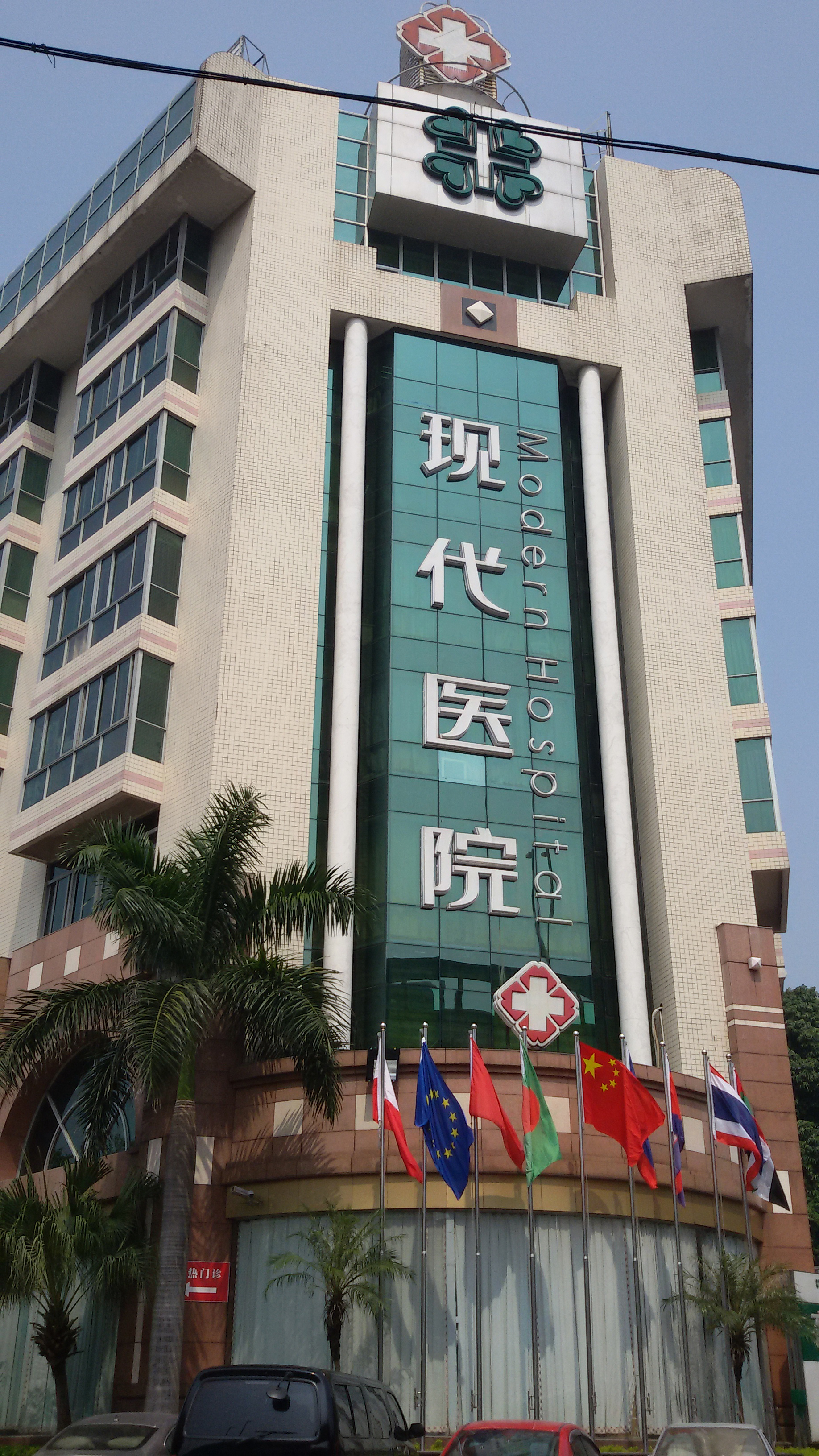 Guangzhou Modern Hospital 粵語: 廣州現代醫院